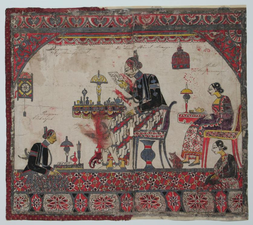 "Prince Diponegoro / Pangeran Dipanagara; Inscriptions in Malay (rumi). On top of the drawing: 'Pangeran Dipanagara lagie ber damai /Boewat Merangan /orang koempeni' (Pangeran Dipanagara lagi berdamai buat merangan orang kompeni [i.e. the Dutch]. Inscription on the right side: 'Ratoe /kantjananongo[?]'. Inscription on the left side: 'Pangeran /Ali Bassah'. Arabic islamic inscriptions in Dipanagara's hand: 'Muhammad Ra/sul Allah /alah wa Rabb wa yab'; in front of Pangeran Ali Bassah: 'Allah Rabb /Muhammad'. Inscription in Dutch on the reverse of the drawing: ‘gevonden ten huize van Ba. Naip’ [in Bandung, c. 1892]." Water colour and oxidised silver on European paper. Provenance:Collection Snouck Hurgronje (Legacy 1936). Leiden University Library (The Netherlands), Oriental Collections, Or. 7398: 2